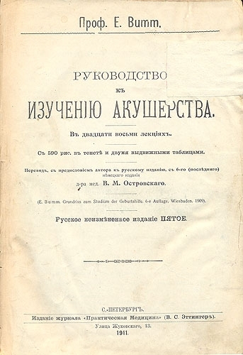 Front page of the book "Guide to the study of obstetrics"